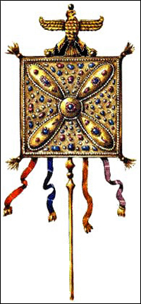 Banner of Derafsh kaviani with Jewels